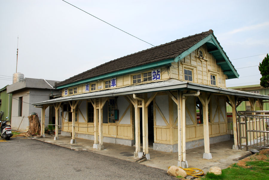 RihNan Station is a local train station of Taiwan's Western main rail line. It's located within the boundary of DaJia Town, TaiChung County. The station house built in 1922 has been appointed as a county heritage site by TaiChung County government.